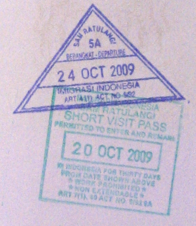 Passport stamp from Sam Ratulangi Airport, Manado, North Sulawesi, Indonesia.